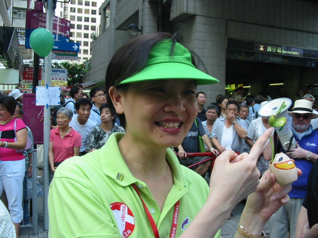 Audrey Eu participates 2006 July 1 March